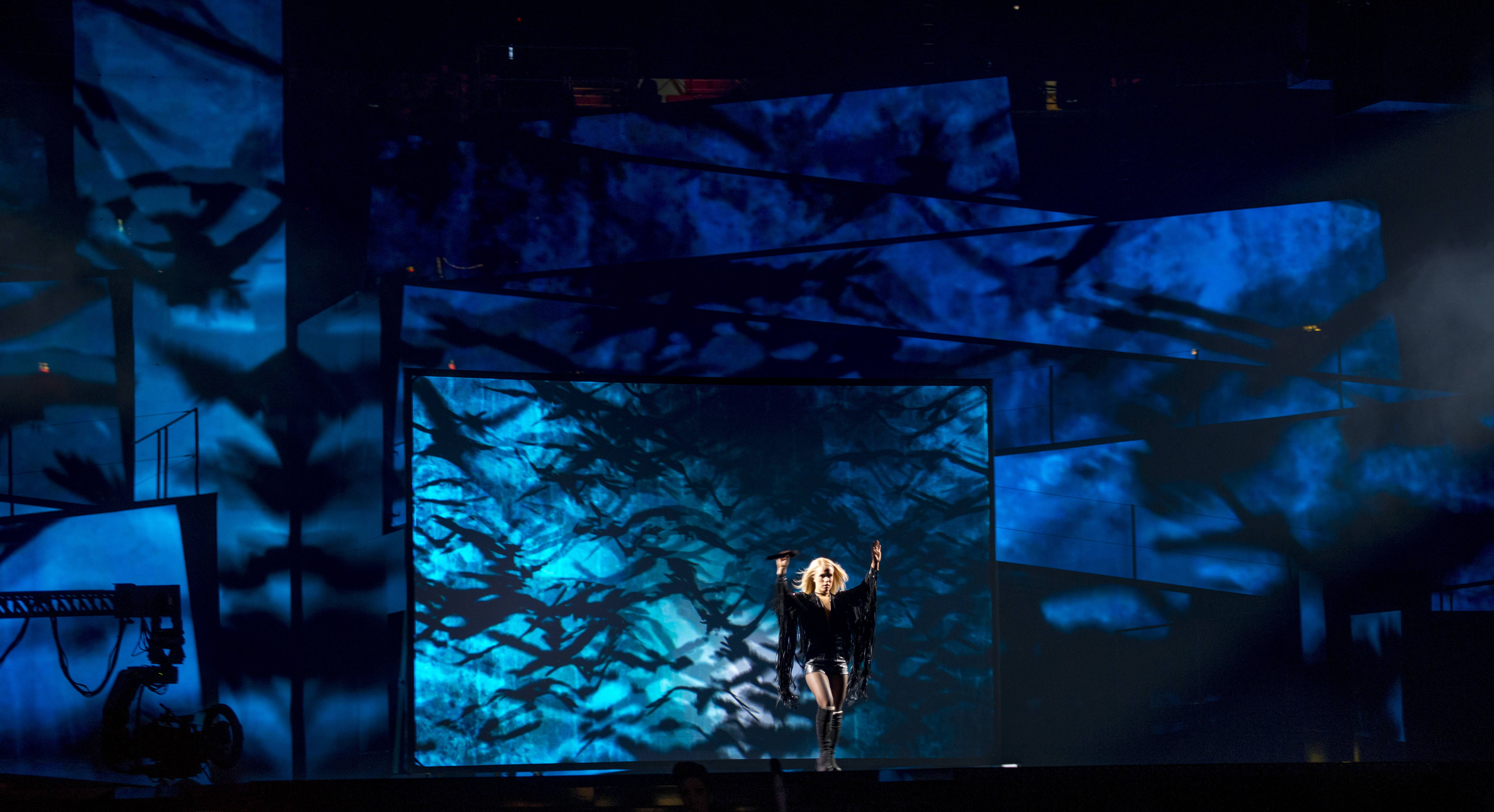 Greta Salóme representing Iceland with the song "Hear Them Calling" during a rehearsal before the first semi final of the Eurovision Song Contest 2016 in Stockholm. (Help translate this text)